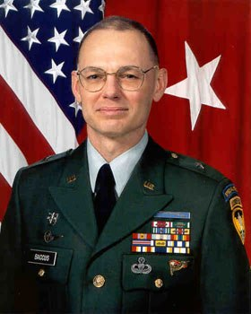 Brig. Gen. Rick Baccus